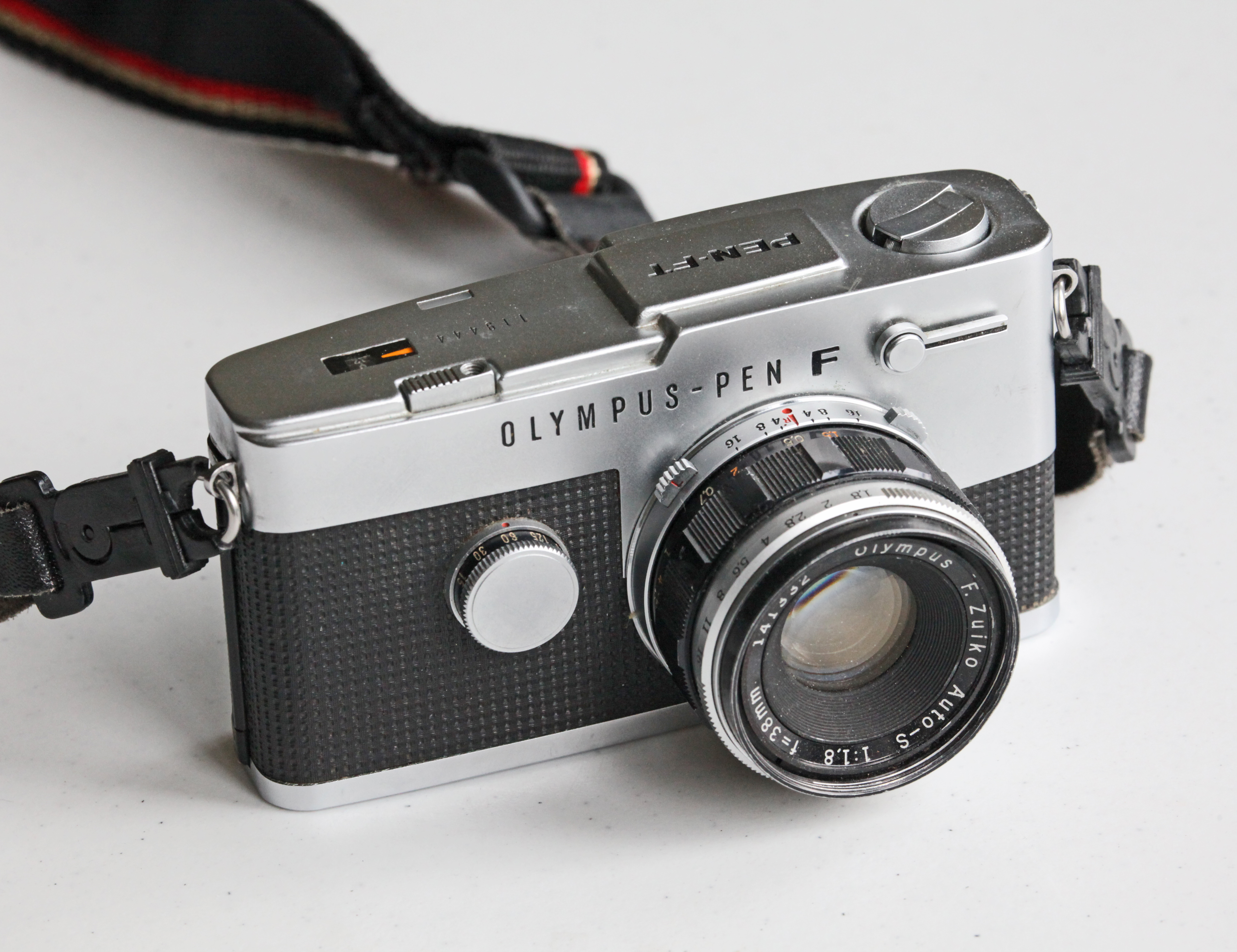 A chrome finish Olympus Pen FT with Zuiko Auto-S 38mm f/1.8 lens